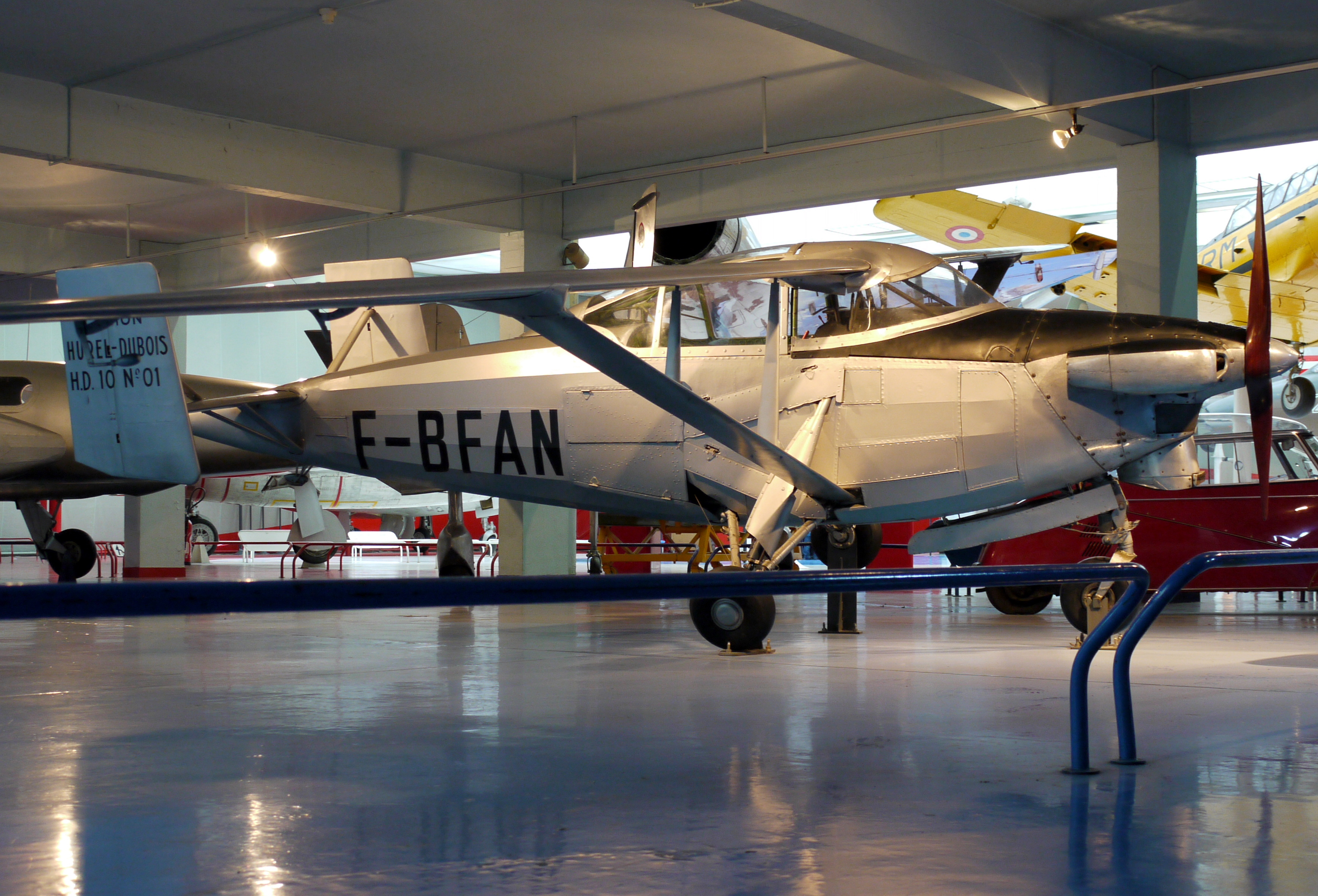 Experimental Airplane Hurel Dubois HD-10 (1948), Museum of Air and Space Paris, Le Bourget (France); Registration F-BVAN